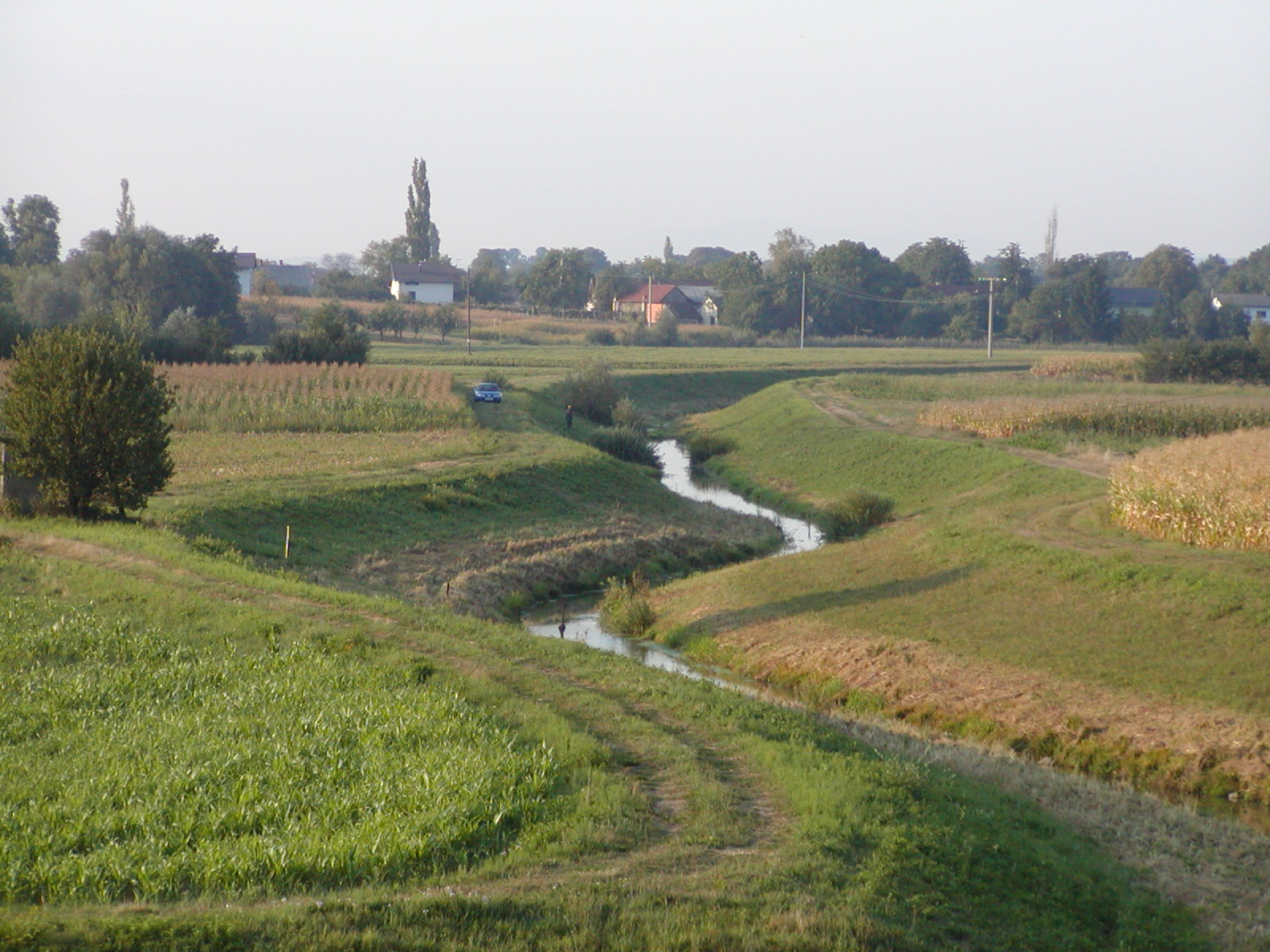 Ledava River below the Ledava Lake